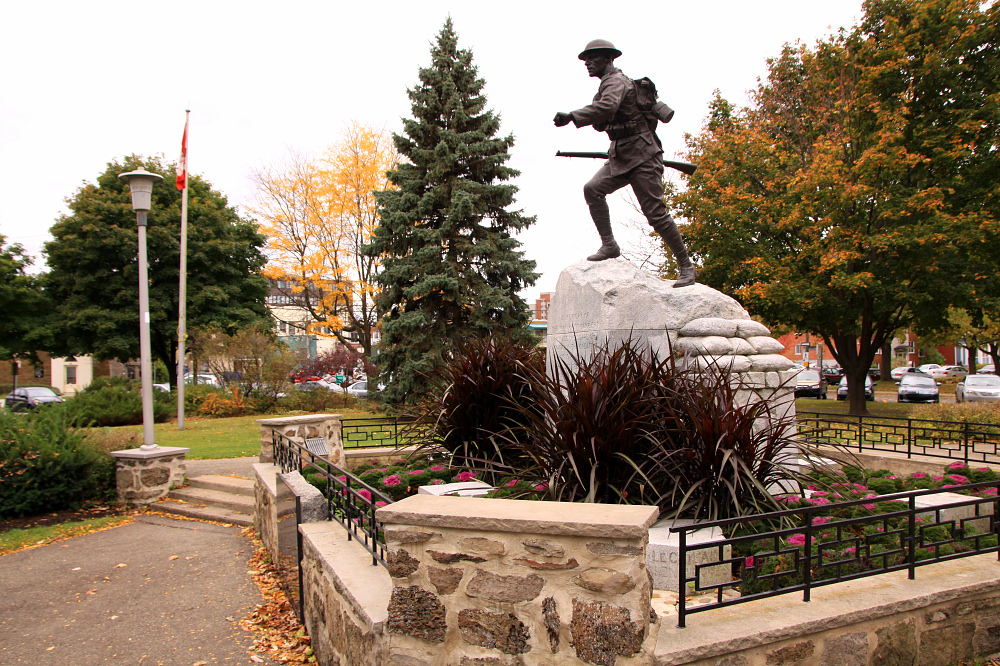 The Saint-Lambert Cenotaph (October 2014) The Saint-Lambert Cenotaph (October 2014)